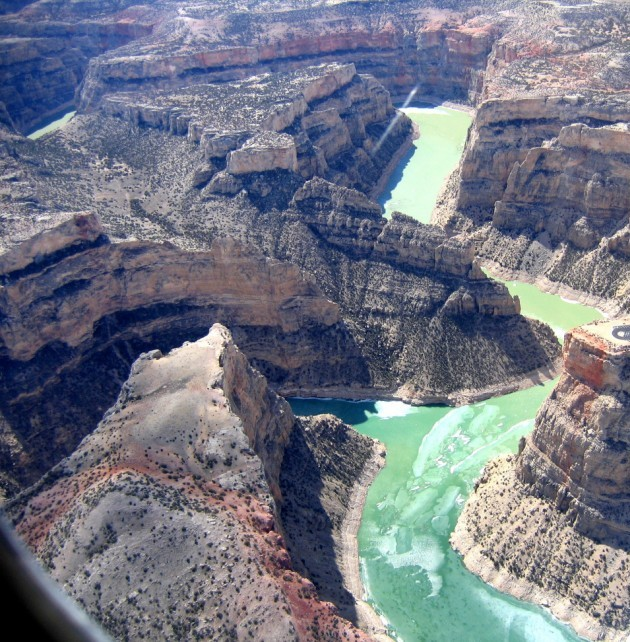 Aerial view of a portion Bighorn Canyon in Montana, showing the Bighorn River.